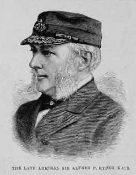 Admiral of the Fleet Sir Alfred Phillips Ryder (1820-1888). Admiral Sir Alfred Phillips Ryder was born on 27 June 1820.1 He was the son of Rt. Rev. Hon. Henry Ryder and Sophia March Phillipps. He married Louisa Dawson, daughter of Henry Dawson, on 29 June 1852. He died on 30 April 1888 at age 67.